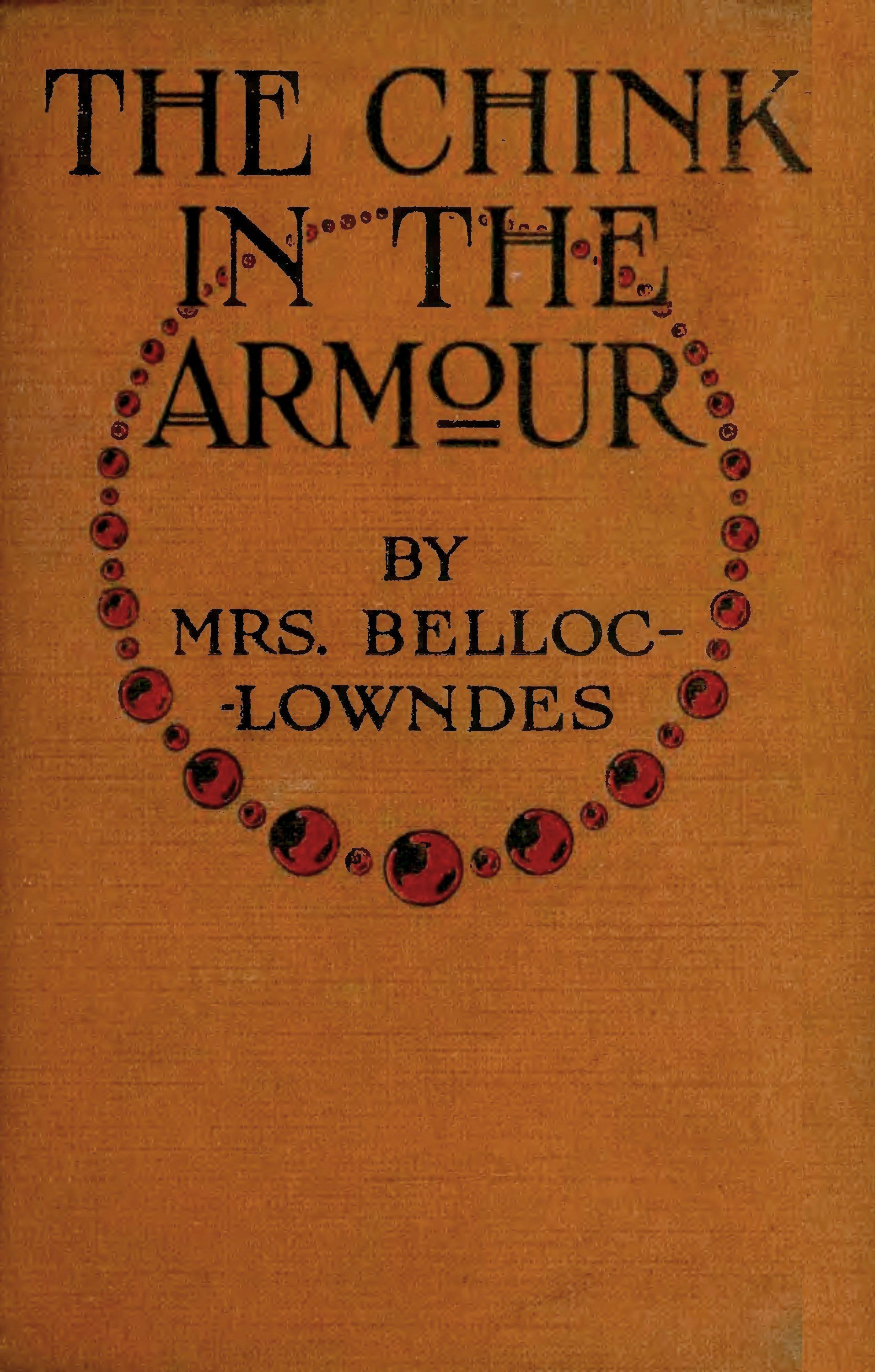 Cover page--from scan of book "The chink in the armour" (1912) by Marie Belloc Lowndes